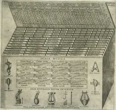 Athanasius Kircher's Arca Musarithmica (Musical Ark). An illustration from Musurgia Universalis (1650). This device could be used by non-musicians to create 4-part polyphonic hymns.